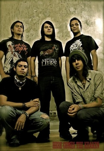 el kraken chido